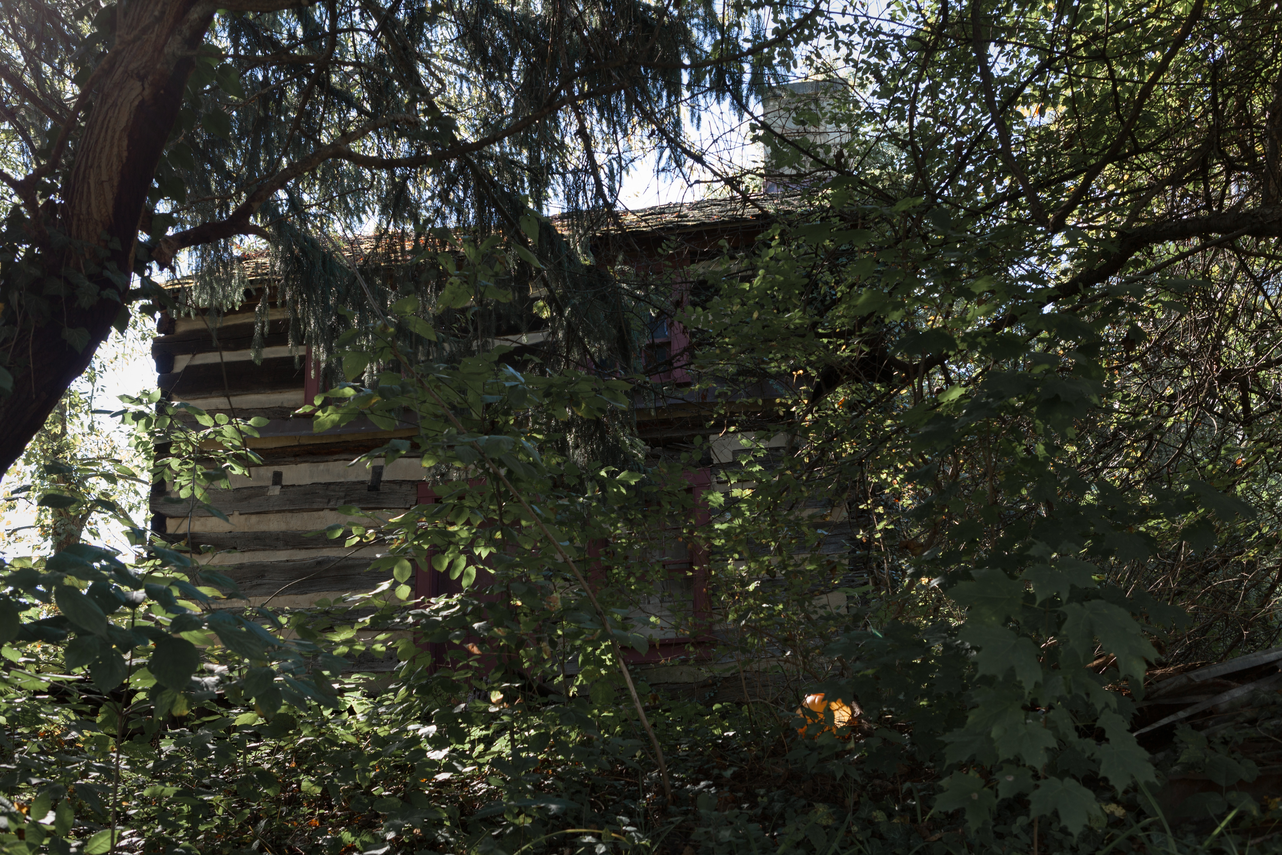 The Regester Log House, hidden in dense undergrowth, seen from Beallsville Rd.